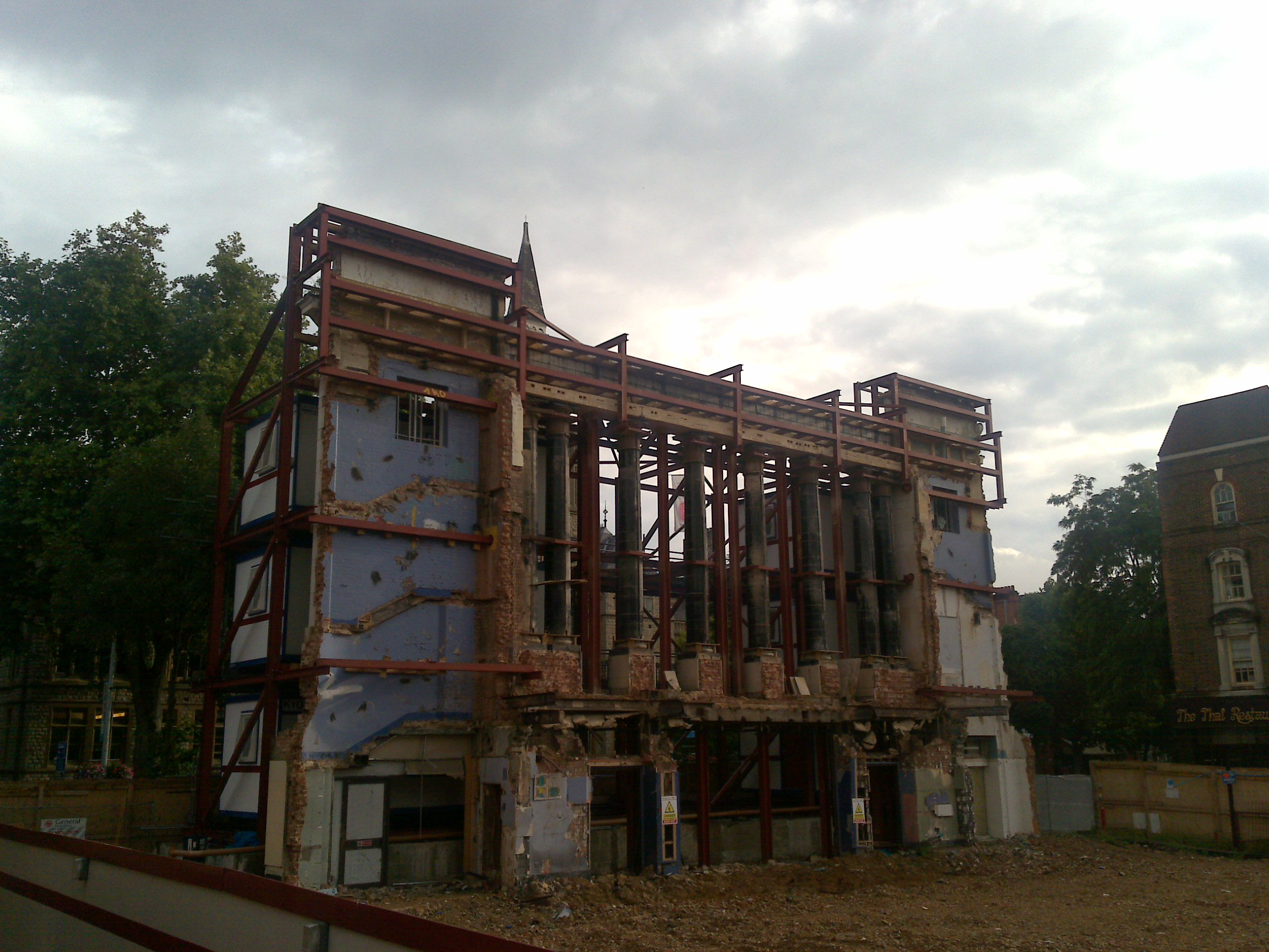 The Empire cinema in Ealing was recently demolished, but they have preserved the facade... this was taken from the rear, with the vacant ground nearby where the cinema used to be